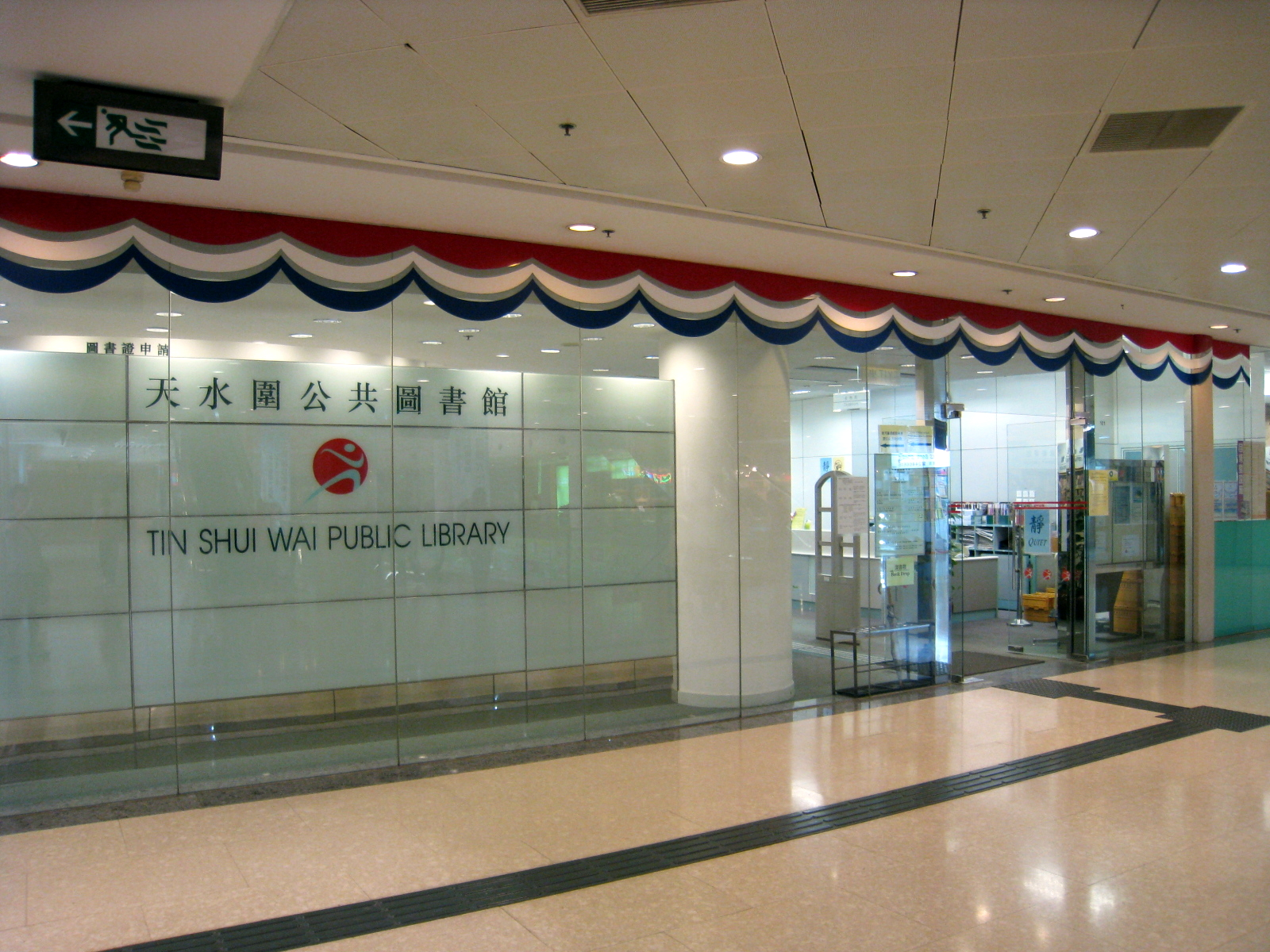 HK Tin Shui Wai Public Library 天水圍公共圖書館